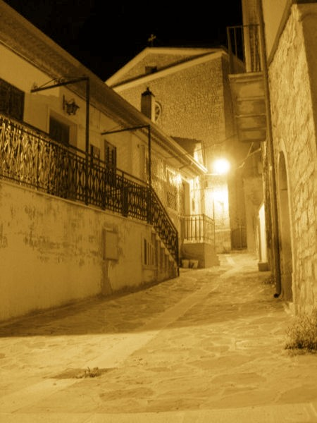 Historical Centre of Greci (Av)